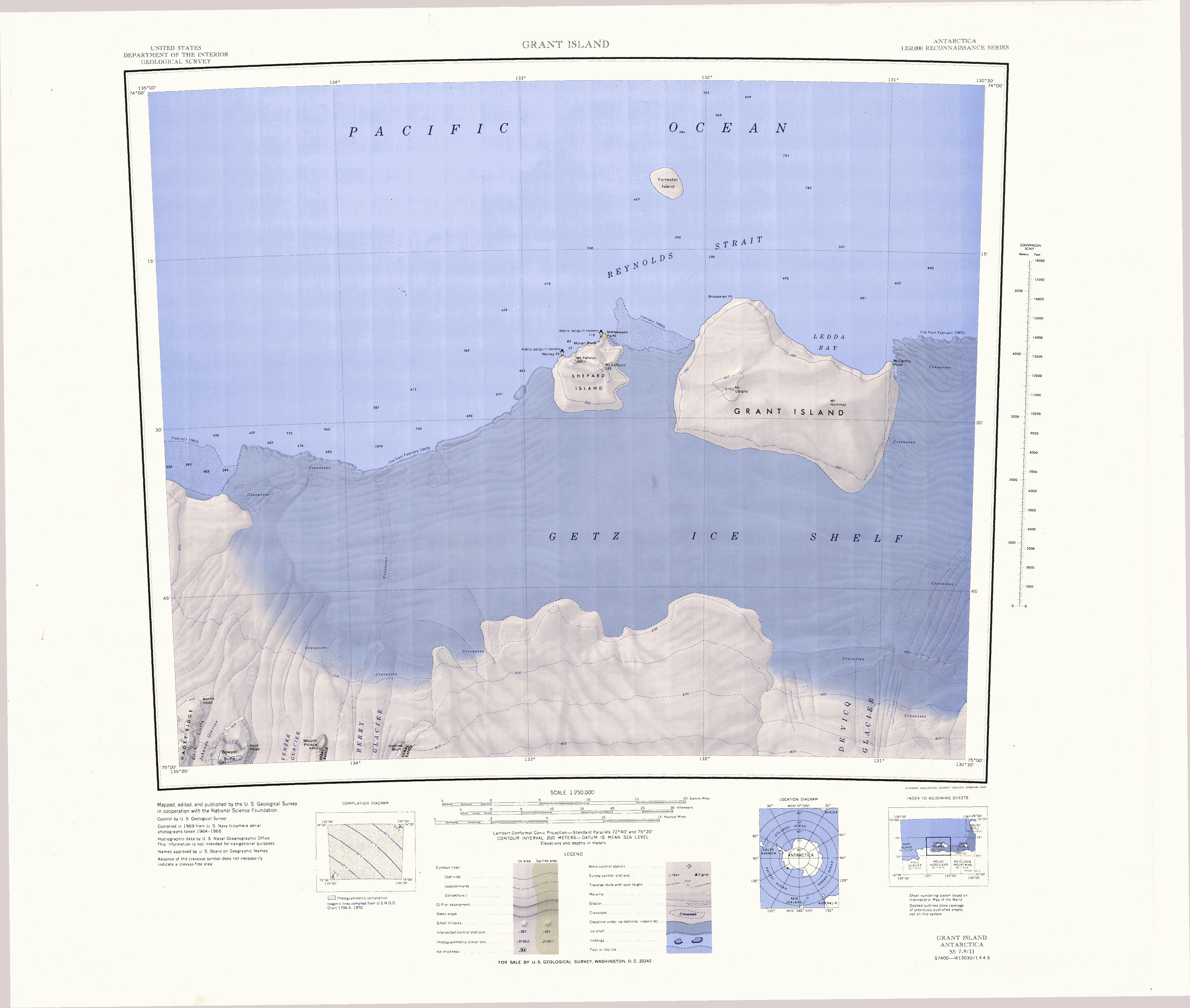 1:250,000-scale topographic reconnaissance map of the Grant Island area from 130°30'-135°W to 74°-75°S in Antarctica, including the western part of the Getz Ice Shelf. Mapped, edited and published by the U.S. Geological Survey in cooperation with the National Science Foundation.